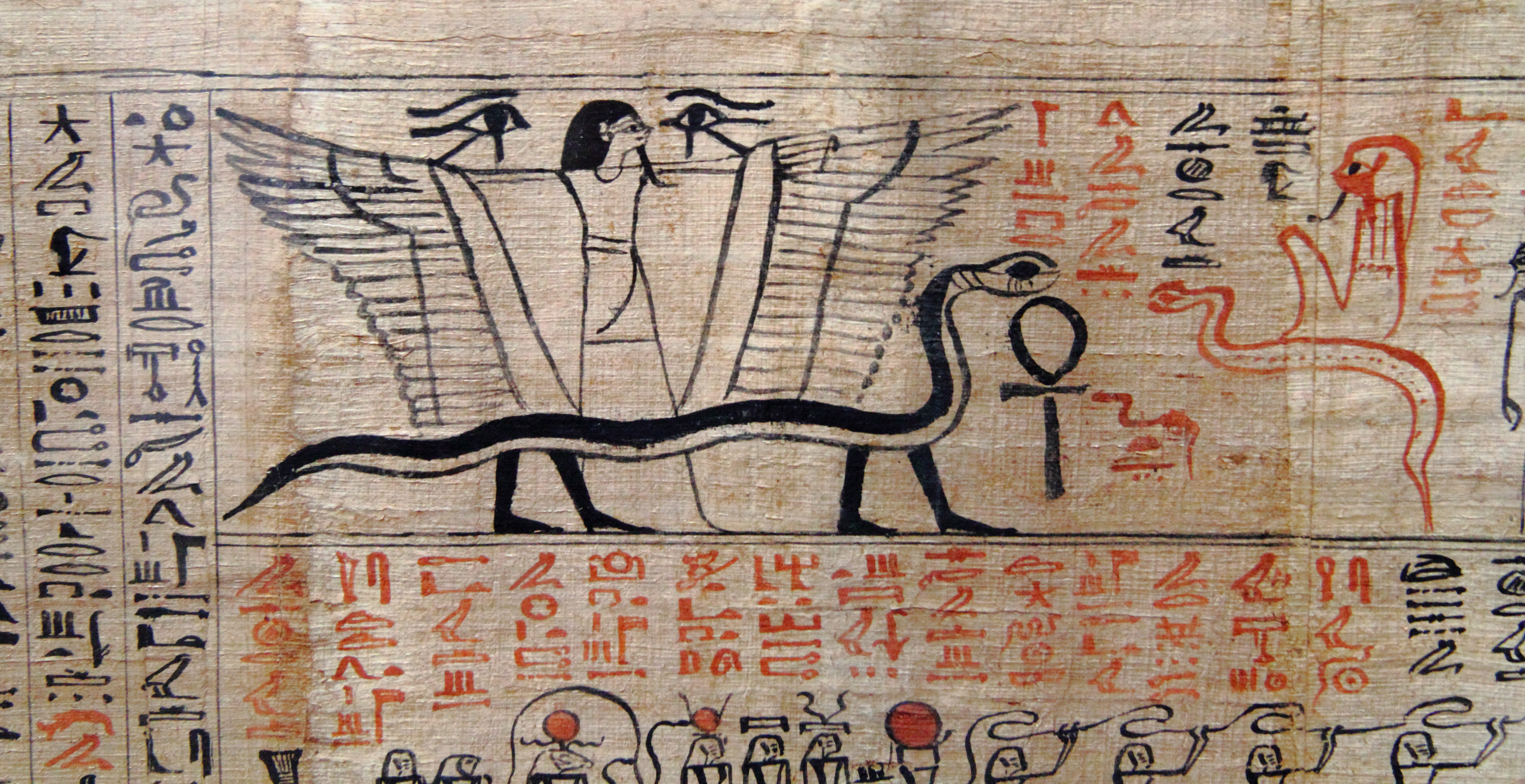 Egyptian Museum, Cairo: Ancient Egyptian papyrus with images and writings in Cursive hieroglyphs, scene from the eleventh hour of the Amduat book of the netherworld